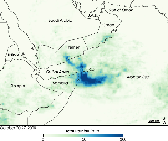 Rainfall totals over Yemen between October 20 and October 27, 2008. Blue and green indicate intense rainfall over eastern Yemen